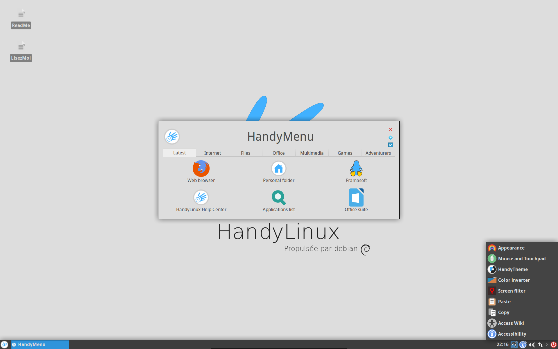 handymenu v4 and handylinux desktop